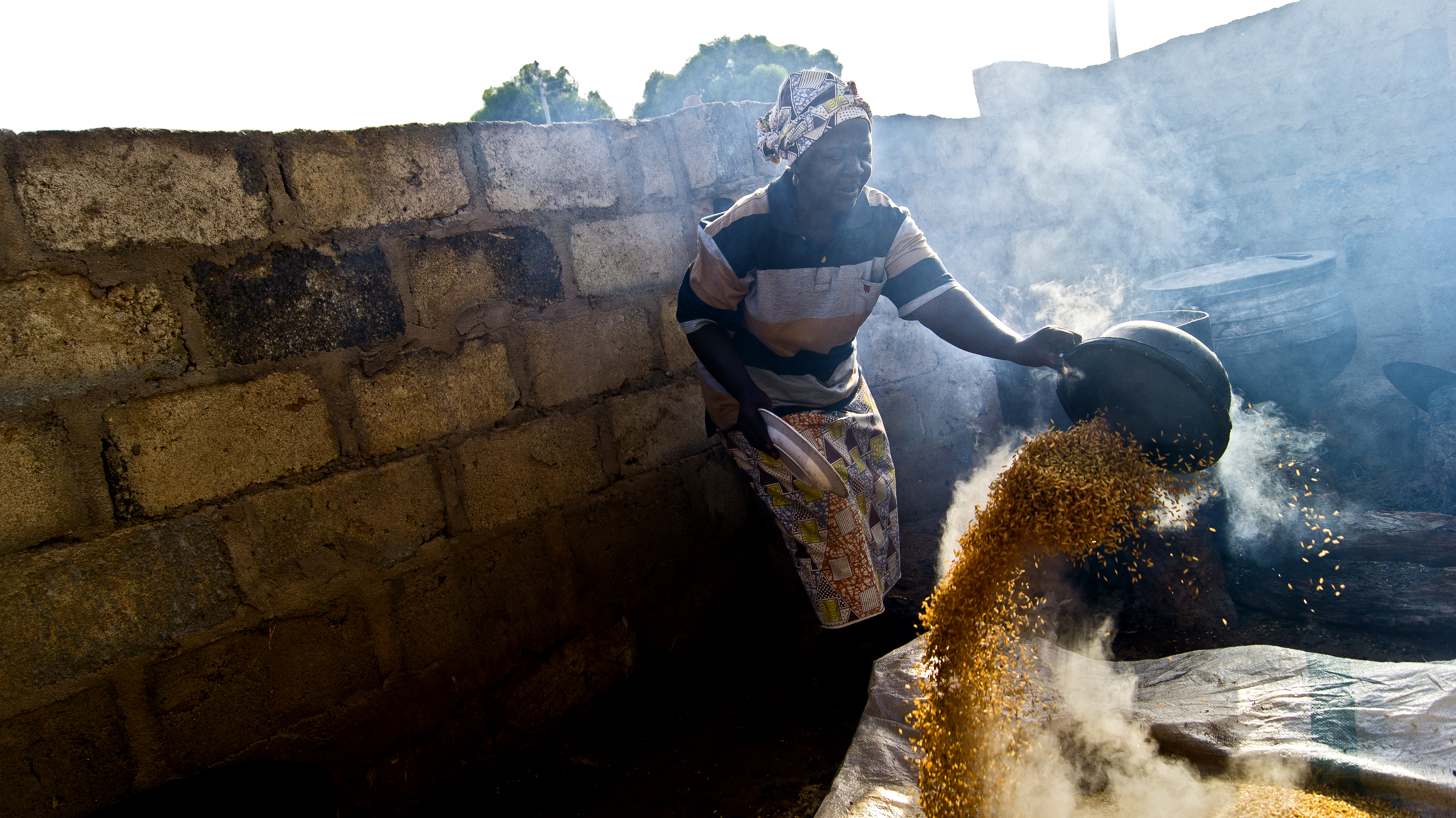 A woman prepares parboiled rice This is an image of "African people at work" from Nigeria